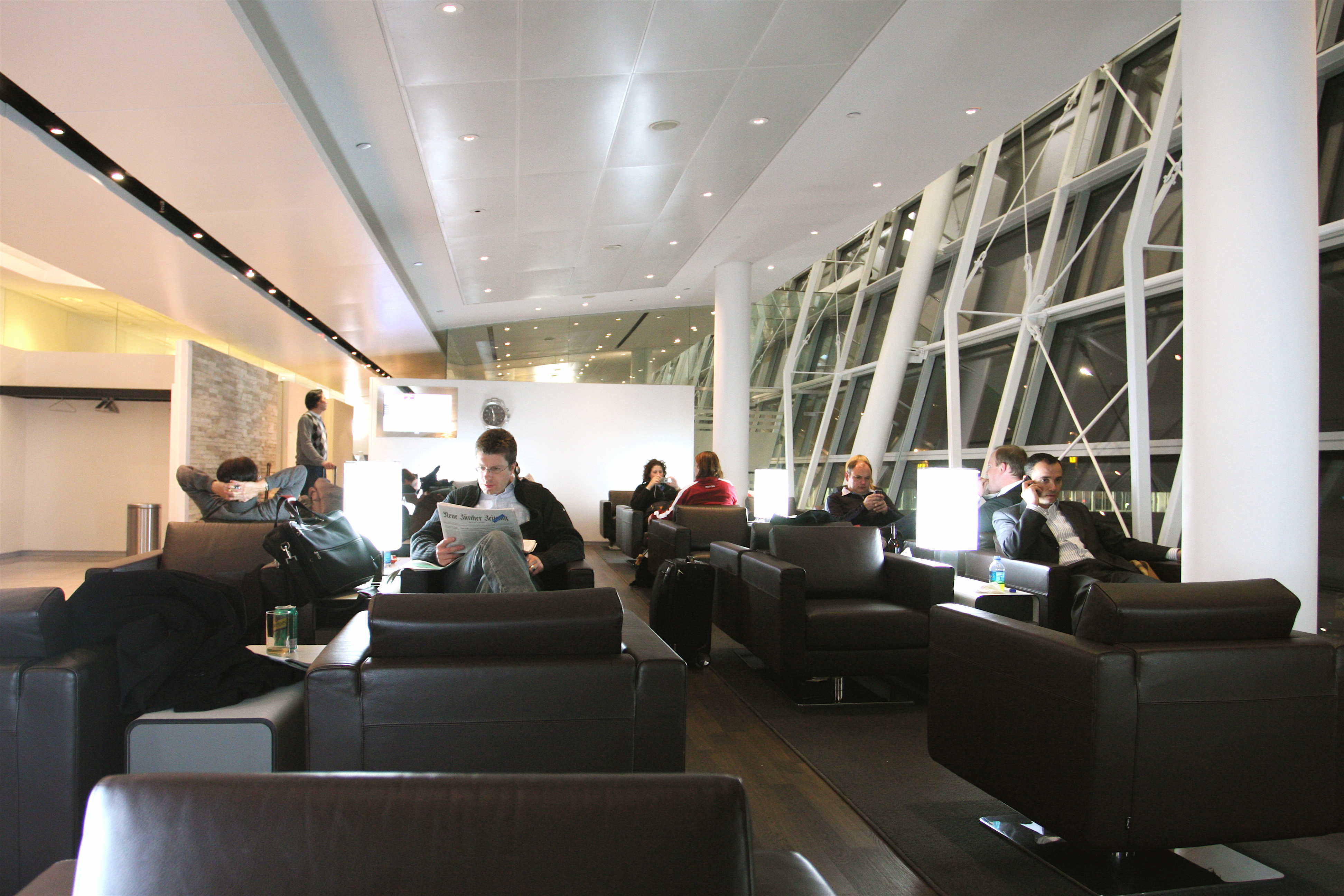 I killed some time in the Swiss lounge with friends before heading over to catch my Open Skies flight.